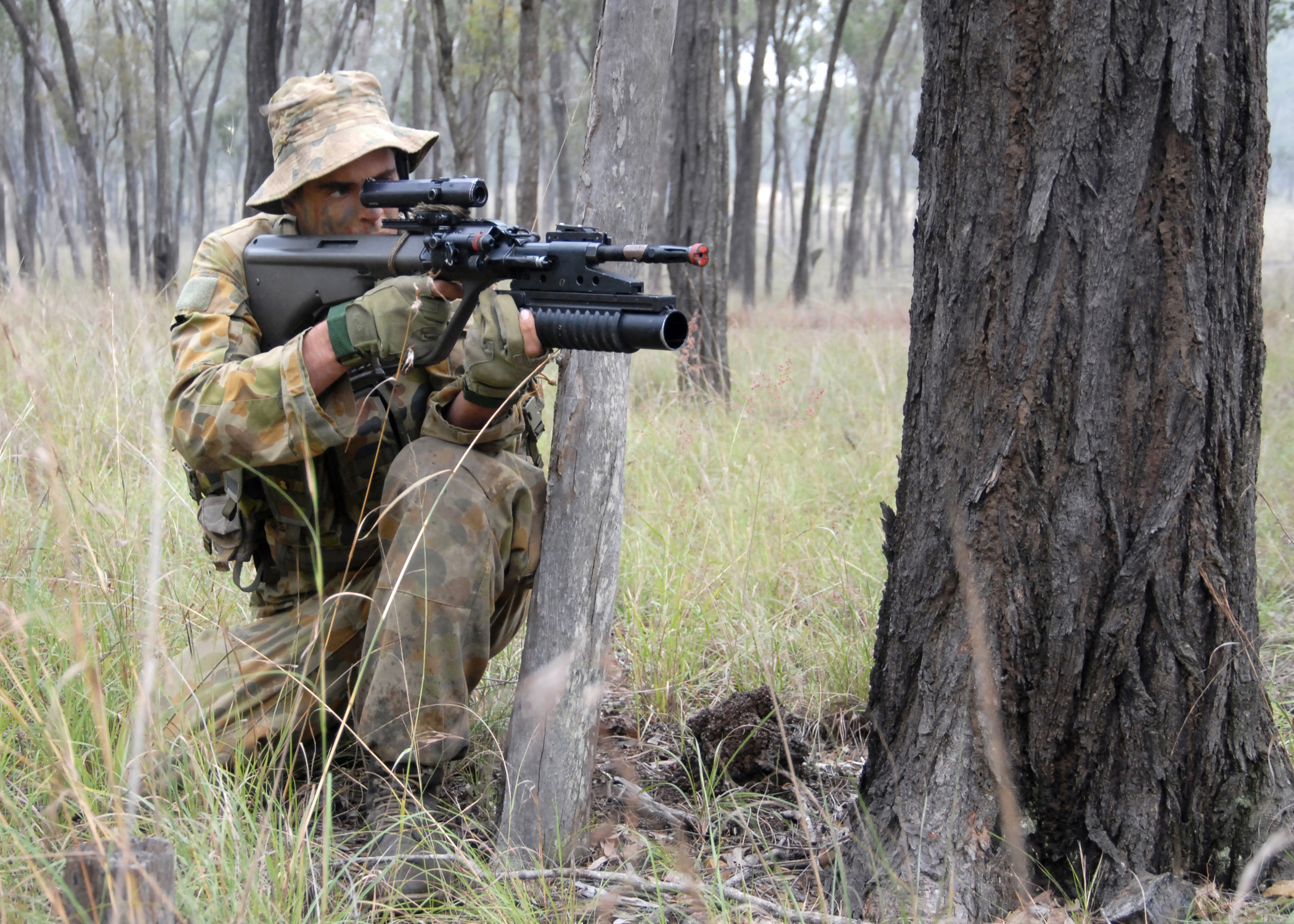 An Australian army soldier returns fire as he's engaged by enemy contacts during exercise Talisman Sabre 2007 in Shoalwater Bay, Australia, June 25, 2007. The biennial exercise is designed to train Australian and U.S. forces in planning and conducting combined task force operations, which will help improve combat readiness and interoperability.